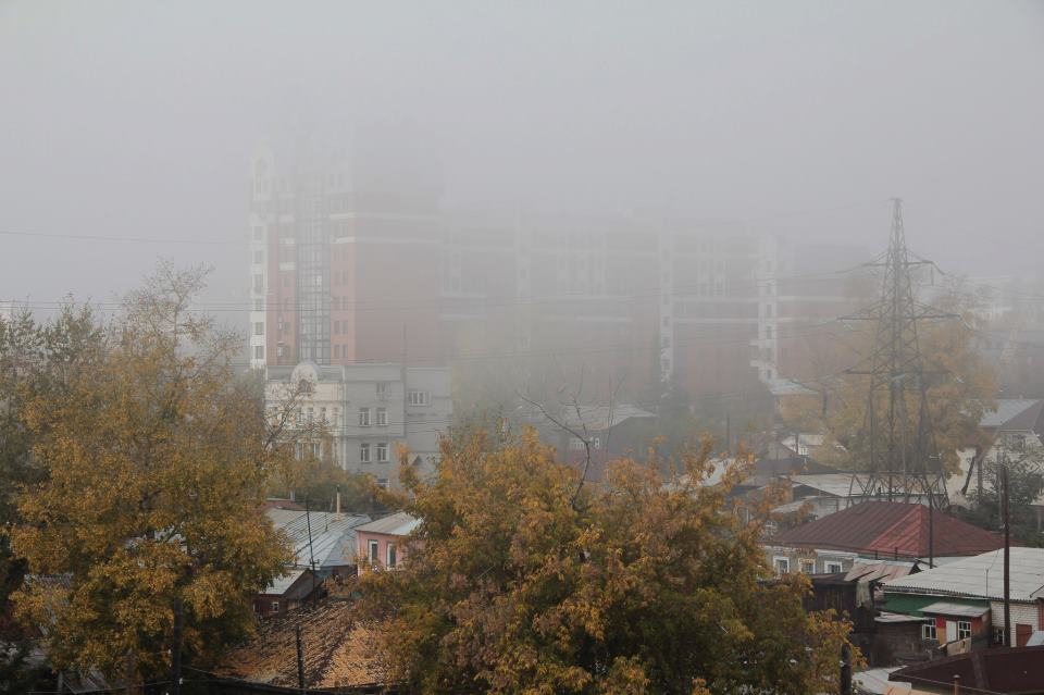 Smog in Barnaul